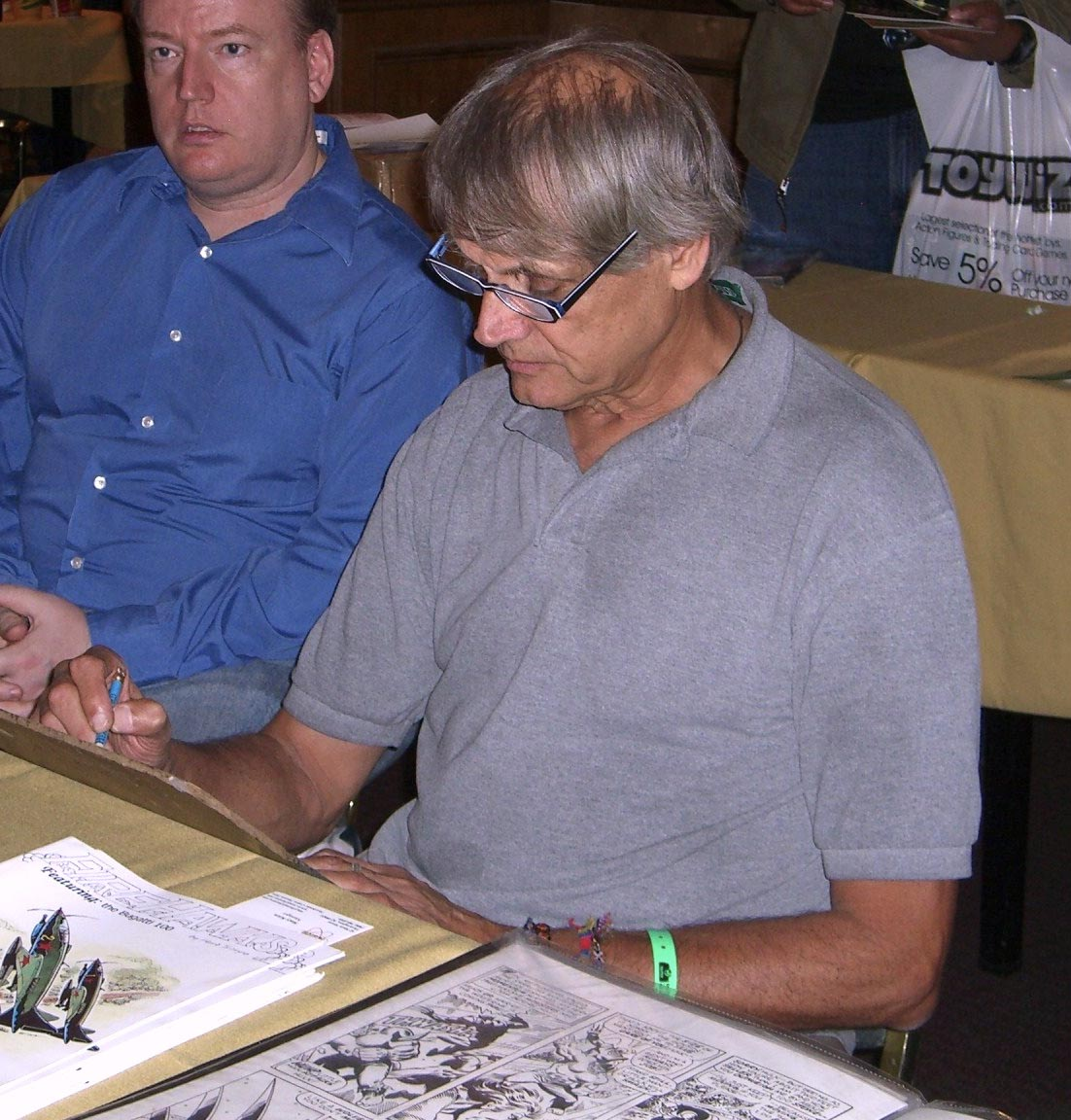 Comic book creator Herb Trimpe at the Big Apple Convention in Manhattan, October 2, 2010. Photo by Luigi Novi. This photo may be used, modified and published for any purpose, only if a easily visible credit to the photographer is placed near the photo in each instance in which it is used. (See licensing information below.) Publication of this photo without this proper attribution constitutes copyright infringement. For more information on my photos, you can contact me here.